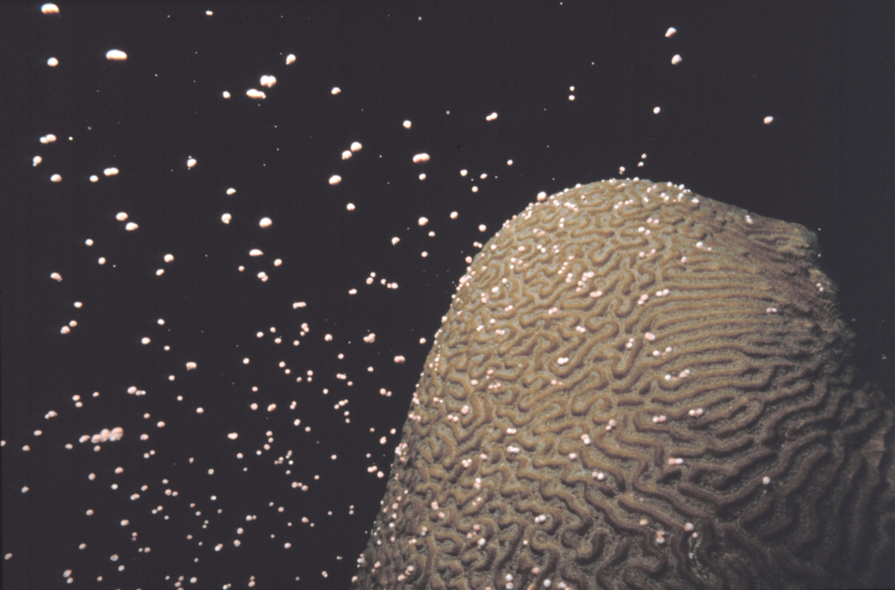 Brain Coral spawning Image ID: sanc0417, NOAA's Sanctuaries Collection Location: Flower Garden Banks National Marine Sanctuary Photographer: Emma Hickerson